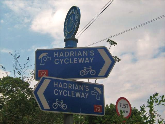 Signpost of Hadrian's Cycleway (NCN 72) near Wylam, Northumberland